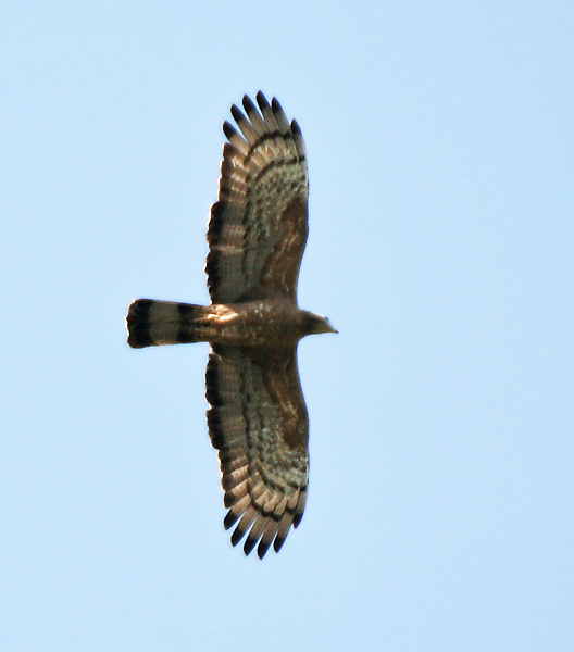 Oriental Honey-buzzard Pernis ptilorhyncus at Keoladeo National Park, Bharatpur, Rajasthan, India.